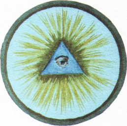 Coat of Arms of Brasłaŭ (1792)